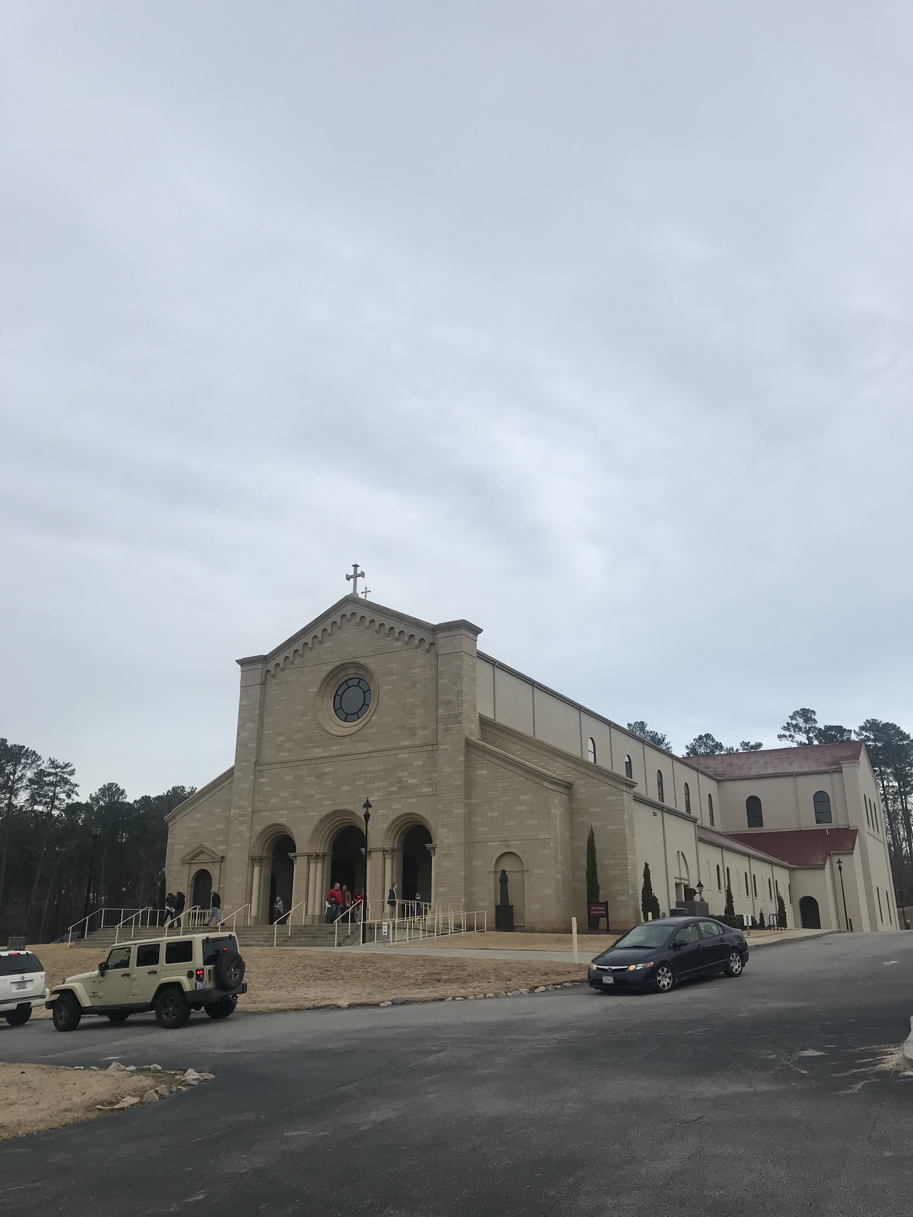 Saint Catherine of Siena Roman Catholic Church in Wake Forest, North Carolina